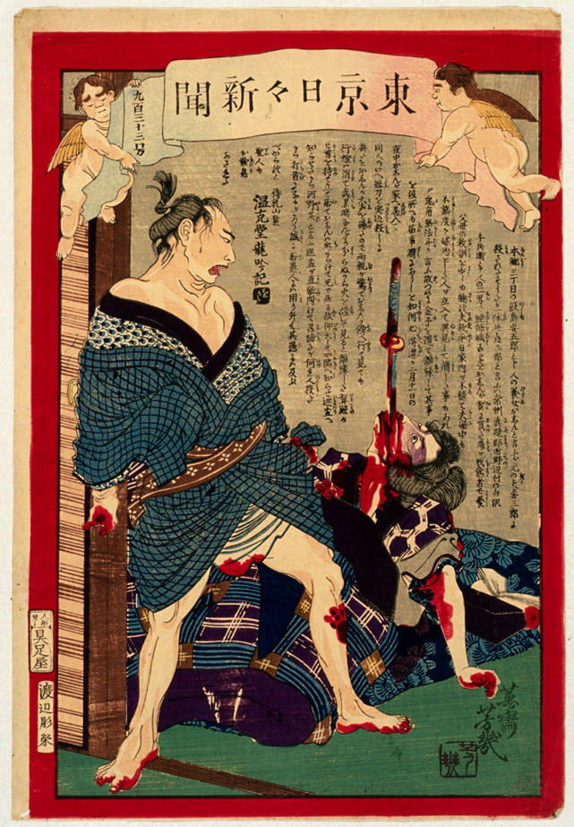 Tokyo Nichinichi Shinbun Number 933